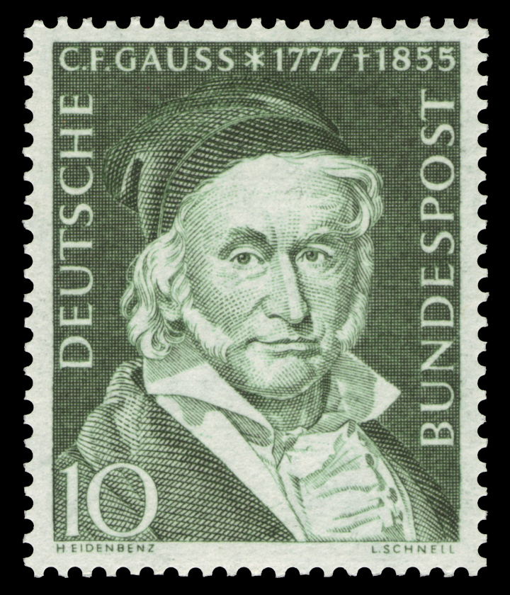 stamp for the 100th day of death of Carl Friedrich Gauß (1777-1855) Graphics by Hermann Eidenbenz Ausgabepreis: 10 Pfennig First Day of Issue / Erstausgabetag: 23. Februar 1955 Michel-Katalog-Nr: 204